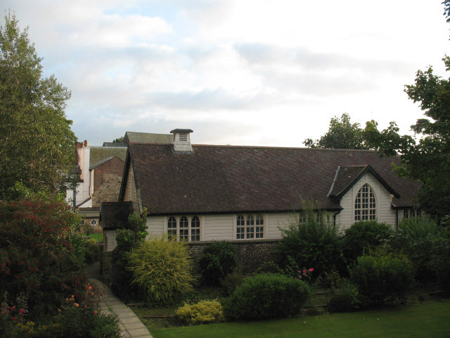 Chapel of St Chad's college. The chapel in the back garden of 979571.